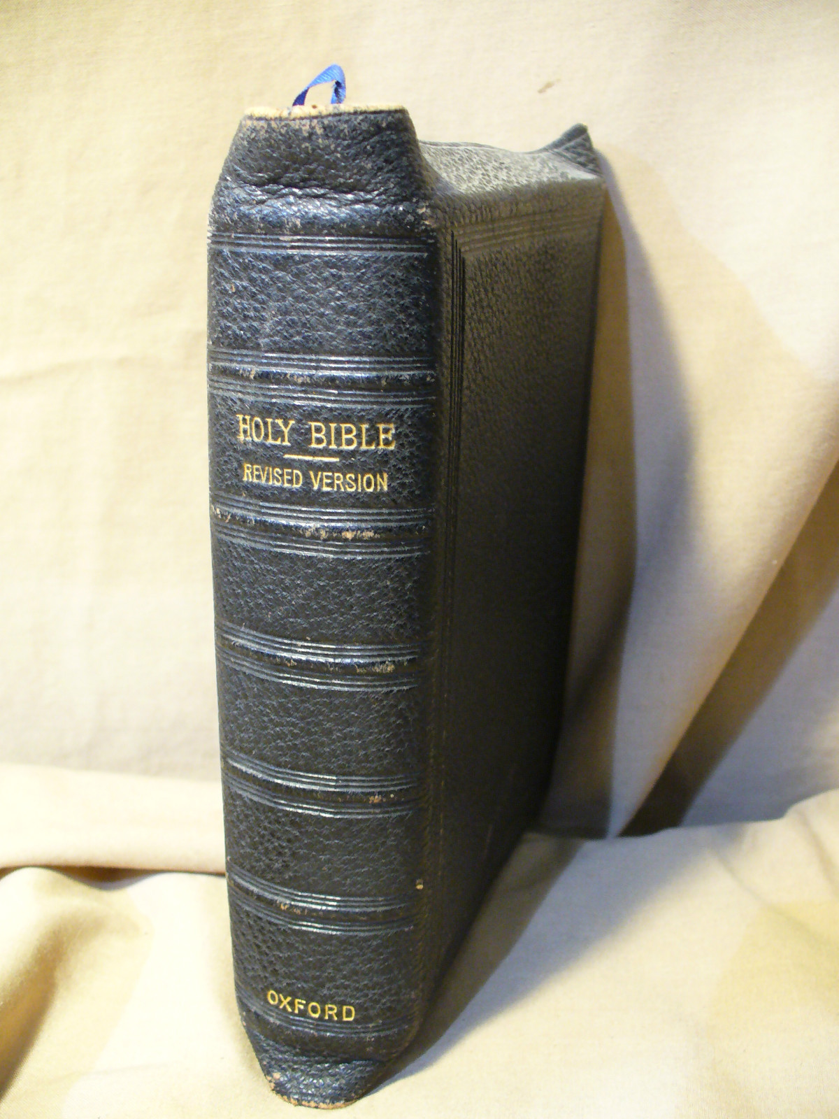 Outside cover of Revised Version of Bible, Published by Oxford in 1885